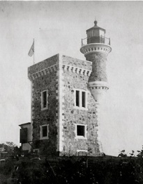 Cabras Island Light, 1916